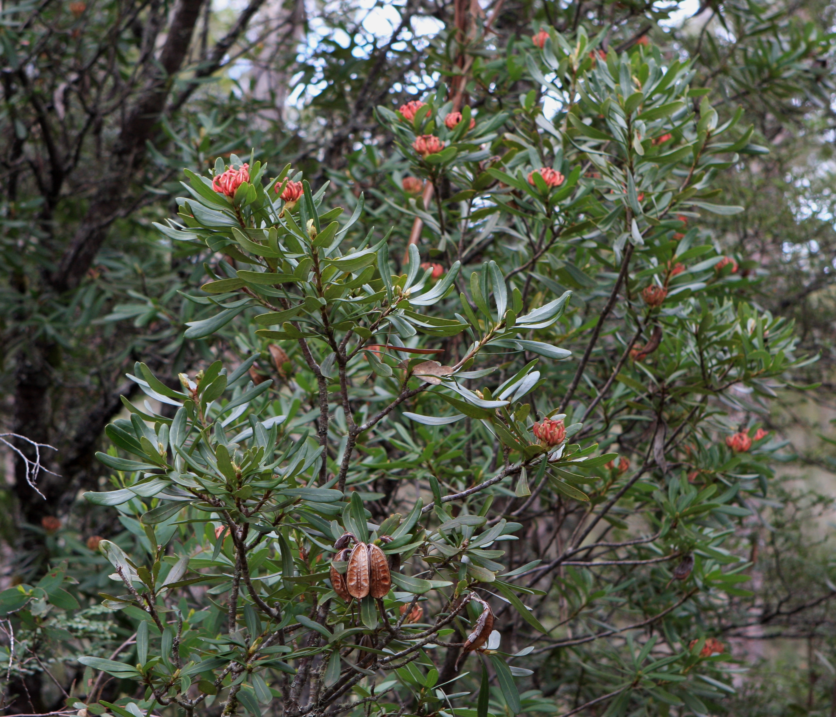 A little later in the day and at a little lower elevation, I started to see Waratah that were blooming. This plant also shows last years seed pod Day 6 of Overland Track Australia oz2009 514